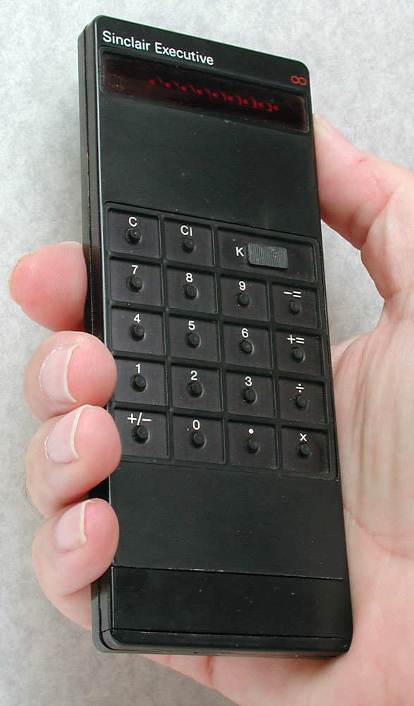 Sinclair Executive calculator. Clever design of its electronics to reduce the power consumption allowed the use of button cells for the first time in a hand-held calculator, and gave a very thin design which was remarkable for the time. Photograph taken by myself of a calculator in my collection.